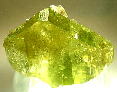 Brazilianite Locality: Conselheiro Pena, Doce valley, Minas Gerais, Southeast Region, Brazil (Locality at ) Size: miniature, 3.5 x 2.5 x 1.5 cm Brazilianite Beautiful doubly-terminated tabular crystal of GEMMY brazilianite from the type find! And, it was obtained from Fred Pough who was largely responsible for the published description of the species and its nomenclature a few years later. The color is a lovely yellow, and the luster varies from pretty good on the sides to superbly lustrous and clear on the terminations and frontal faces. This is a very nice, and quite uncommonly fine, miniature. The contacted and etched back with minor muscovite attached actually adds sparkle to the crystal when lit. They were brought out by dealer Martin Ehrmann in the 1940s and remain to this day the standard by which contemporary brazilianites are held up to. This find is recounted in interesting detail in the excellent book by Dr. Peter Bancroft Gem and Crystal Treasures on pages 201-205. Cal Graeber obtained this piece in a laborious trade along with a small lot of others Fred conveniently found in his garage after all these years, around 1999 if I recall. I bought the lot and sold them at that time. As most folks who have dealt with Dr. Pough know, he rarely has any labels for his material (and those are usually scribbles on scraps of paper!) but I can vouch that it did come from his collection for what it is worth. BTW it is BETTER (more gemmy) in person! 3.5 x 2.5 x 1.5 cm